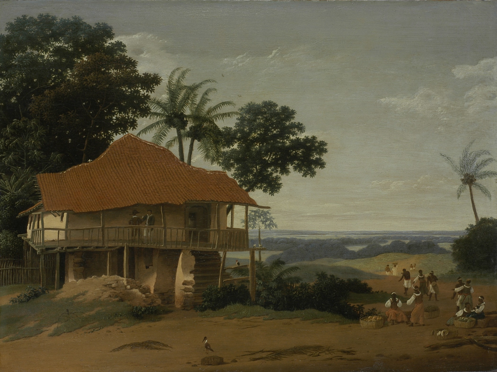 Holland, circa 1655 Paintings Oil on wood Unframed: 18 1/2 x 24 3/4 in. (46.99 x 62.86 cm.); Framed: 26 x 32 in. (66.04 x 81.28 cm) Gift of Mr. and Mrs. Edward W. Carter (M.2003.108.3) European Painting Currently on public view: Ahmanson Building, floor 3